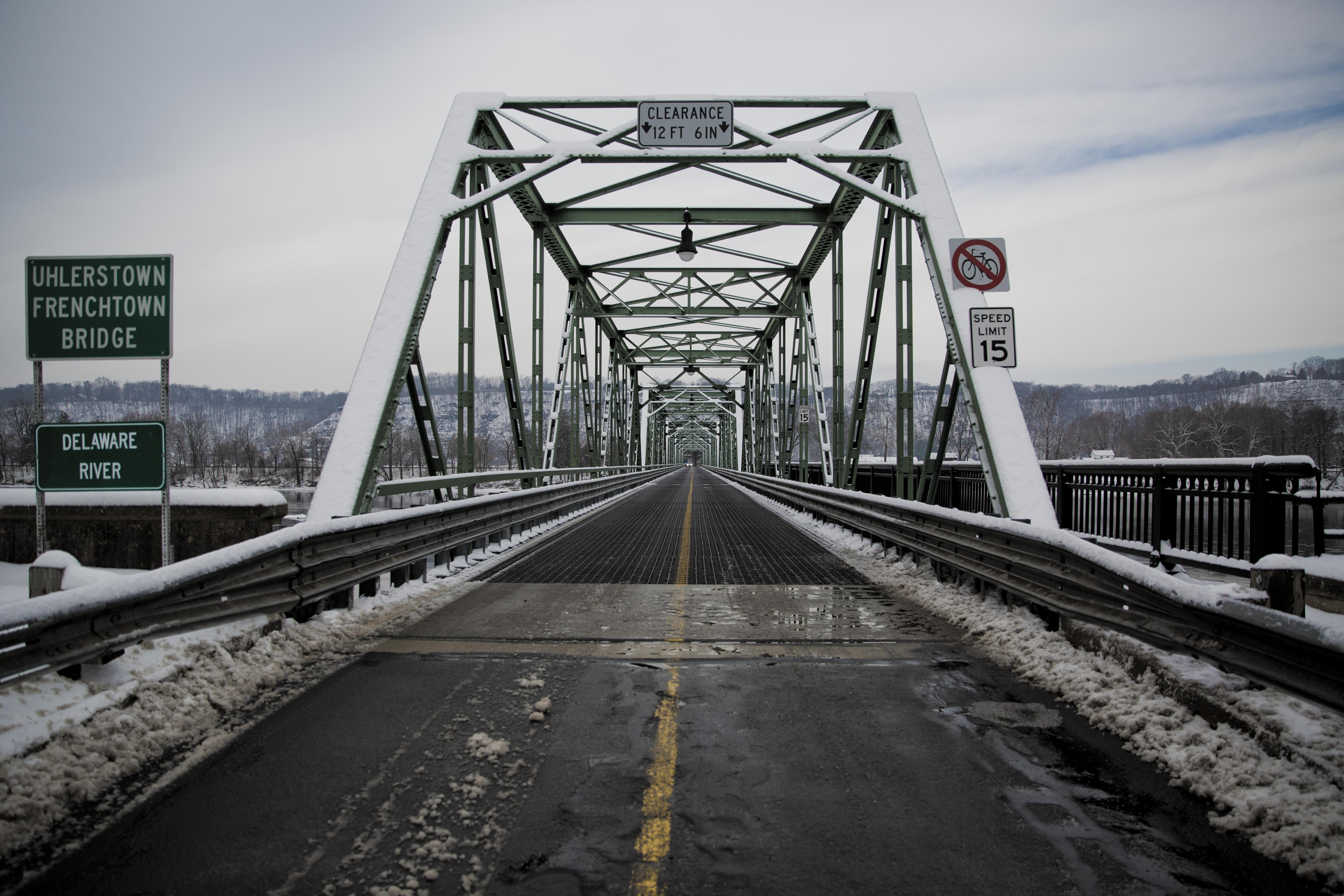 The Uhlerstown–Frenchtown Bridge a free bridge over the Delaware River